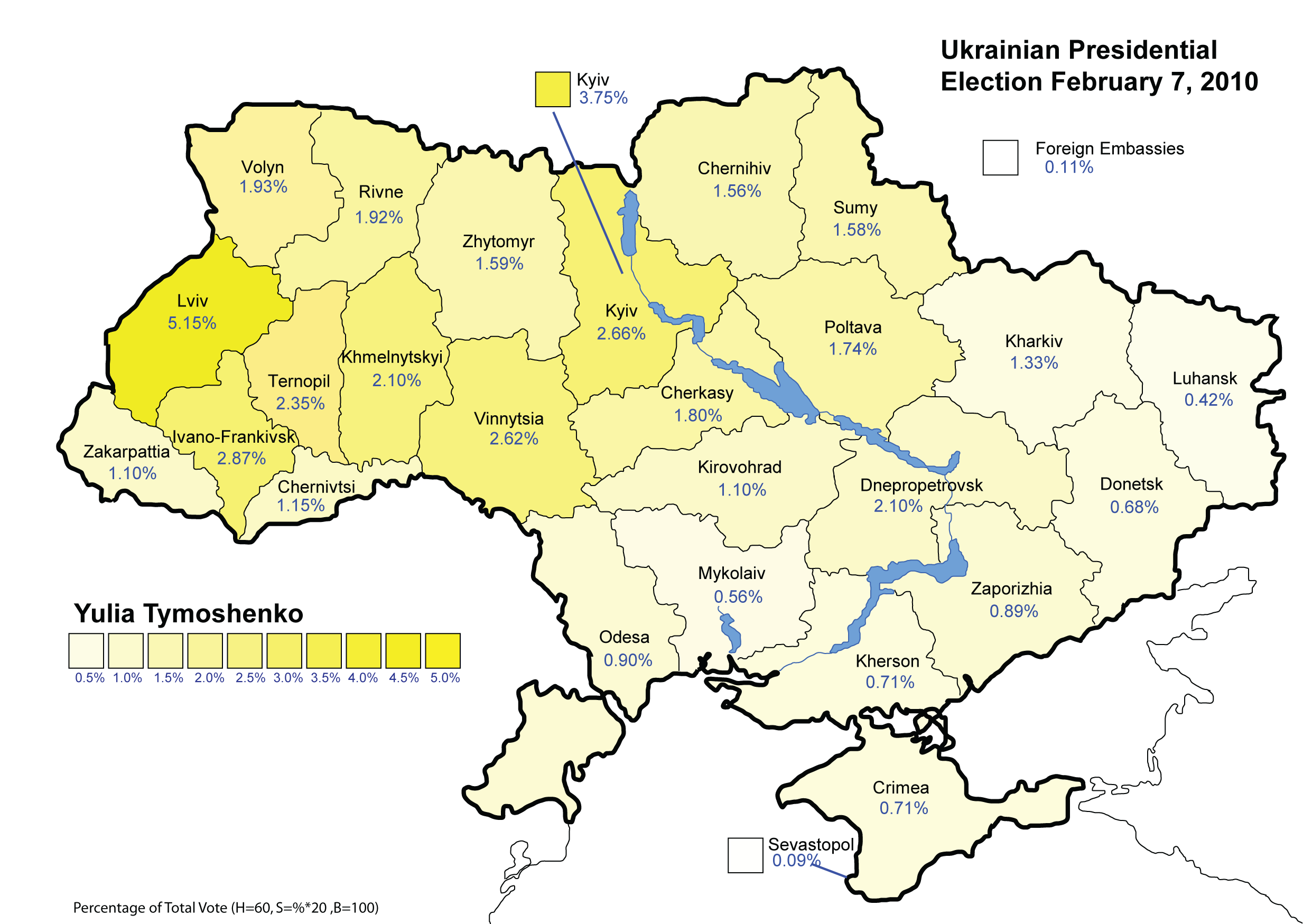 Ukrainian Presidential Election February 2010 - Yulia Tymoshenko (Final Round)